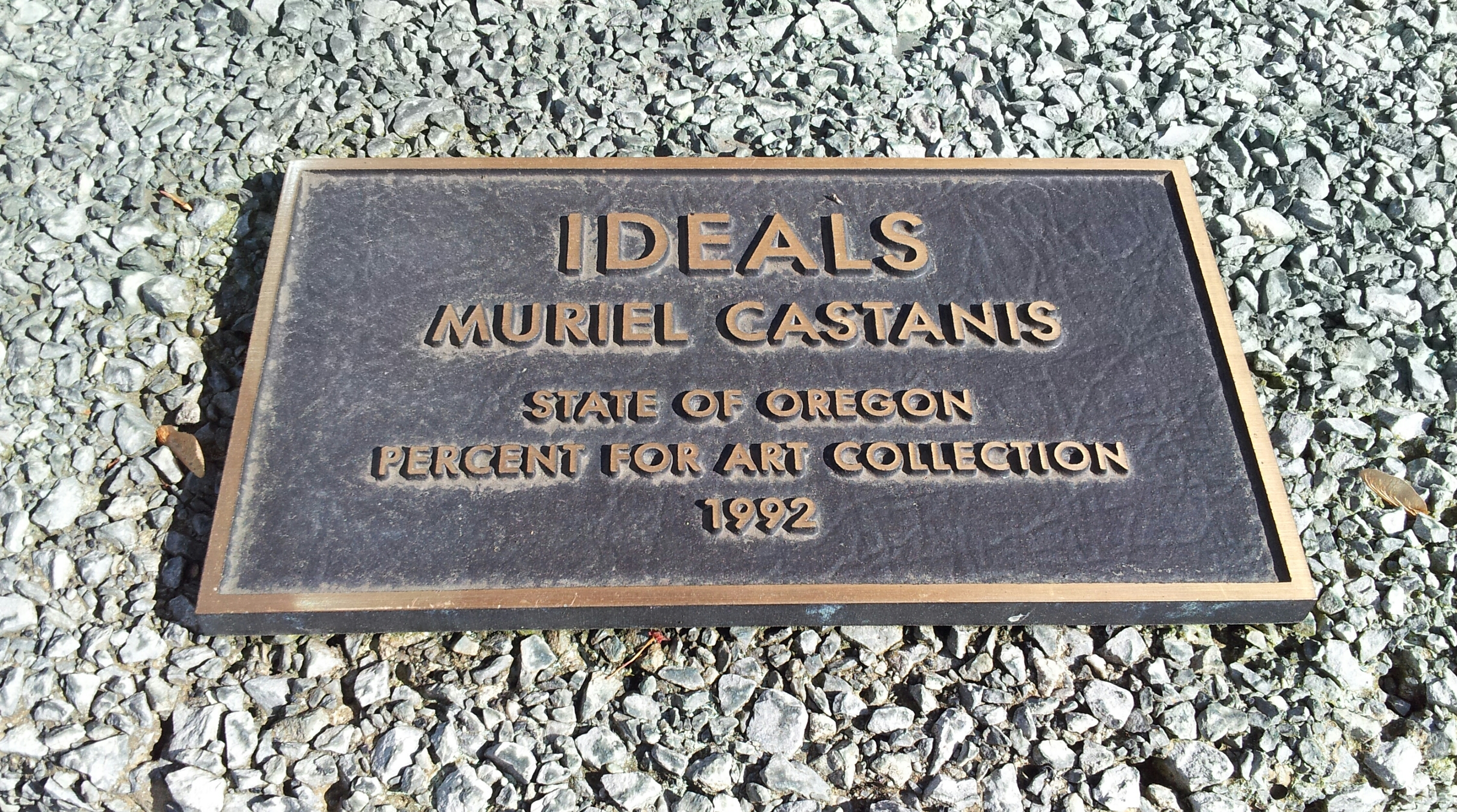 Plaque for Ideals, a sculpture by Muriel Castanis in Portland, Oregon in 2015